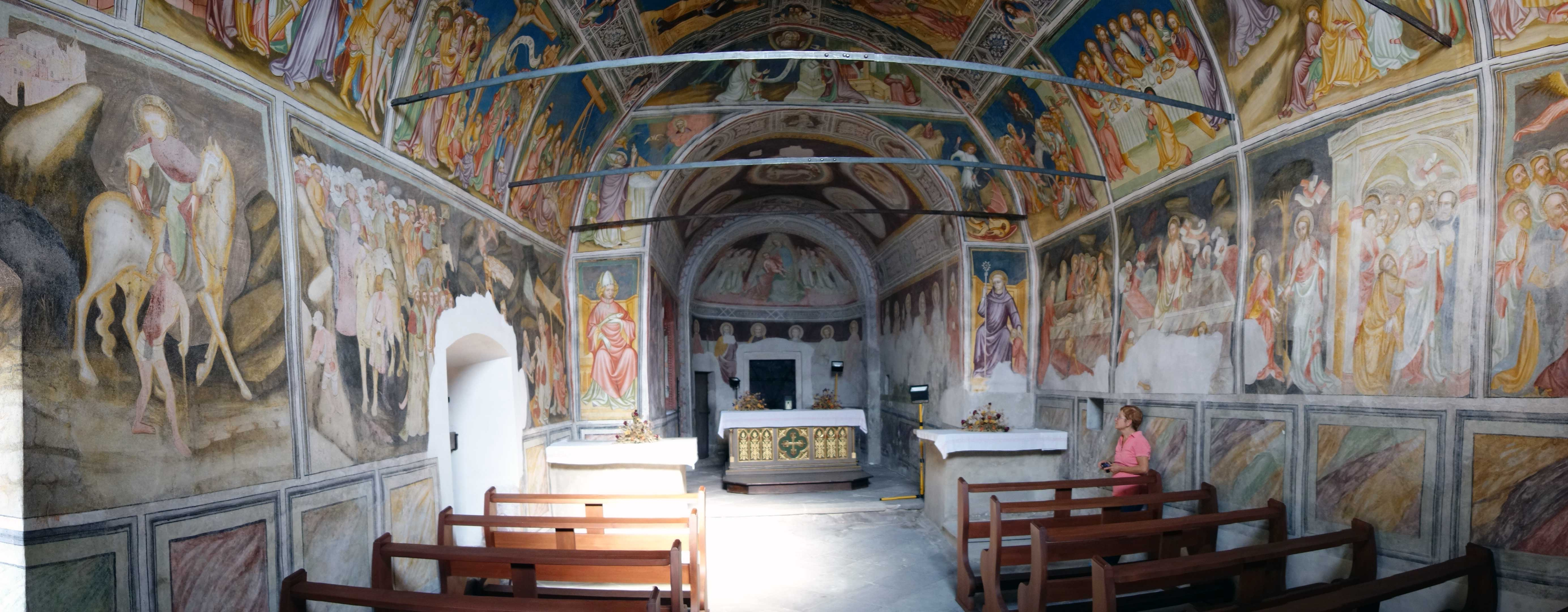 Interior of the church of San Martino in Campiglio (near Bolzano, Italy)